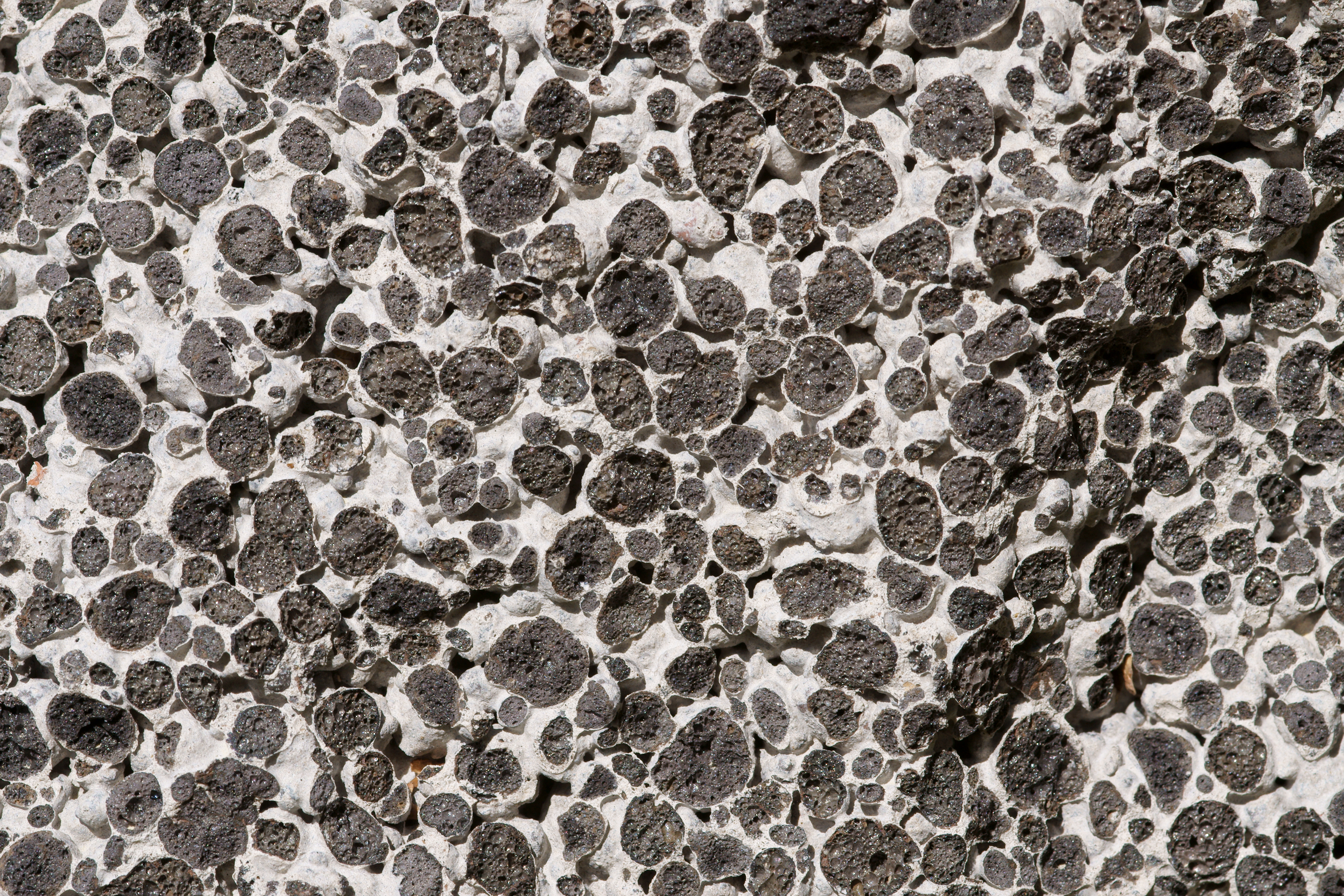 A closeup of a lecablock.